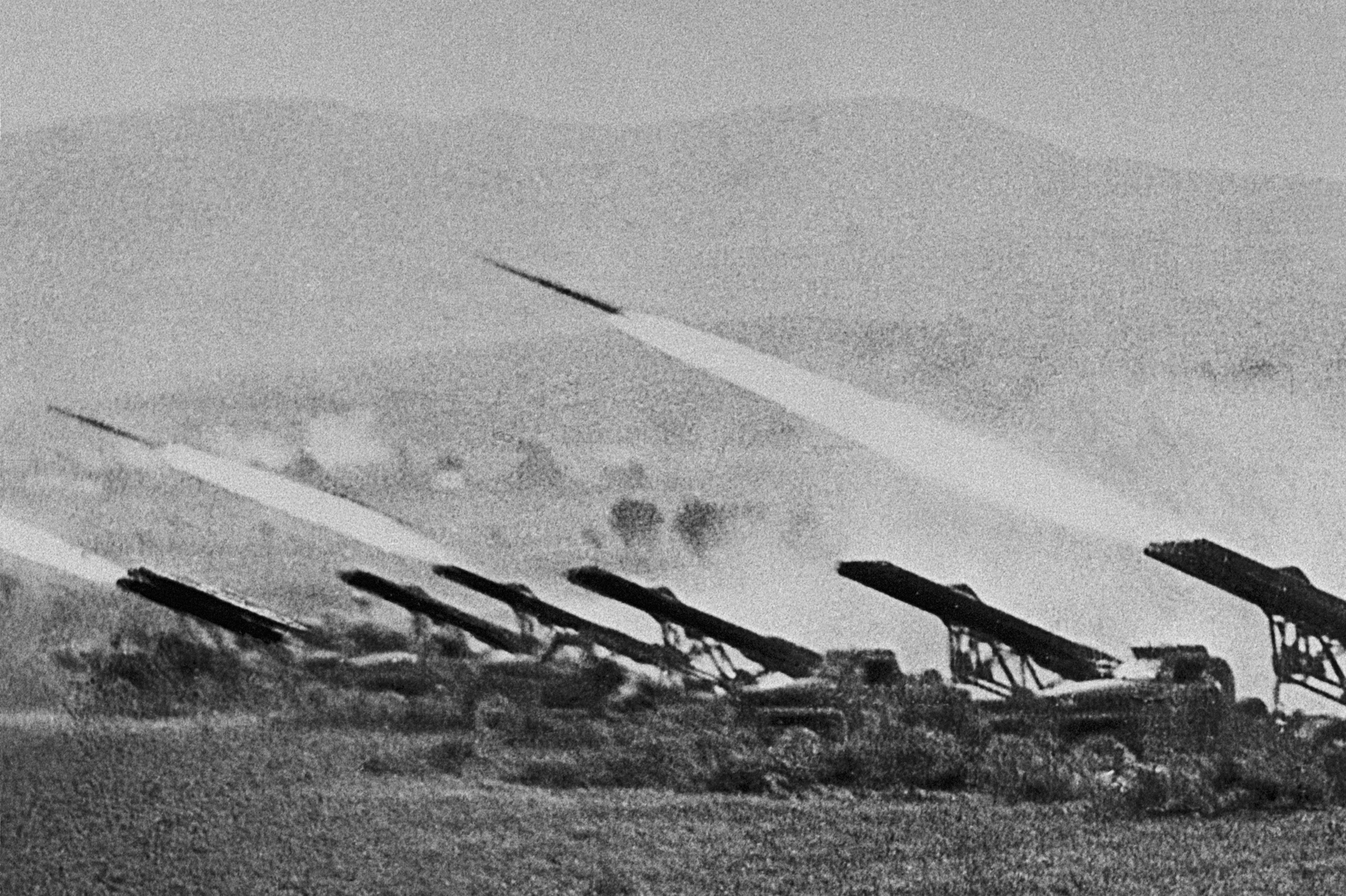 A battery of Katyusha rocket launchers firing at the enemy, German forces, during the Battle of Stalingrad in 6 October 1942, during the Eastern Front which lasted from 1941-1945, part of World War II.